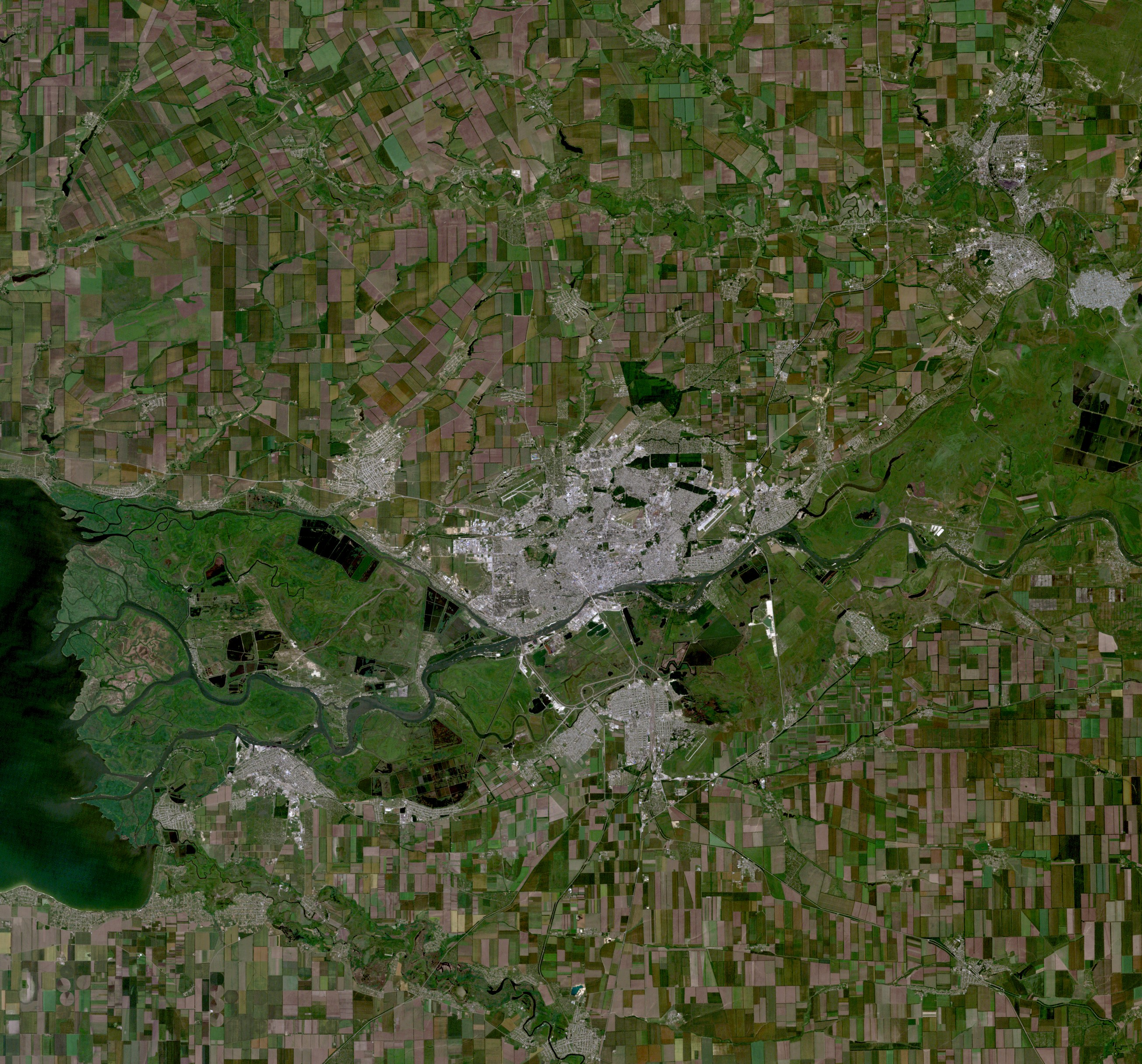 Rostov-on-Don, Russia, city and vicinities, near natural colors, LandSat-5, 2010-06-10? resolution 30 m image ID LT51740272010161MOR00